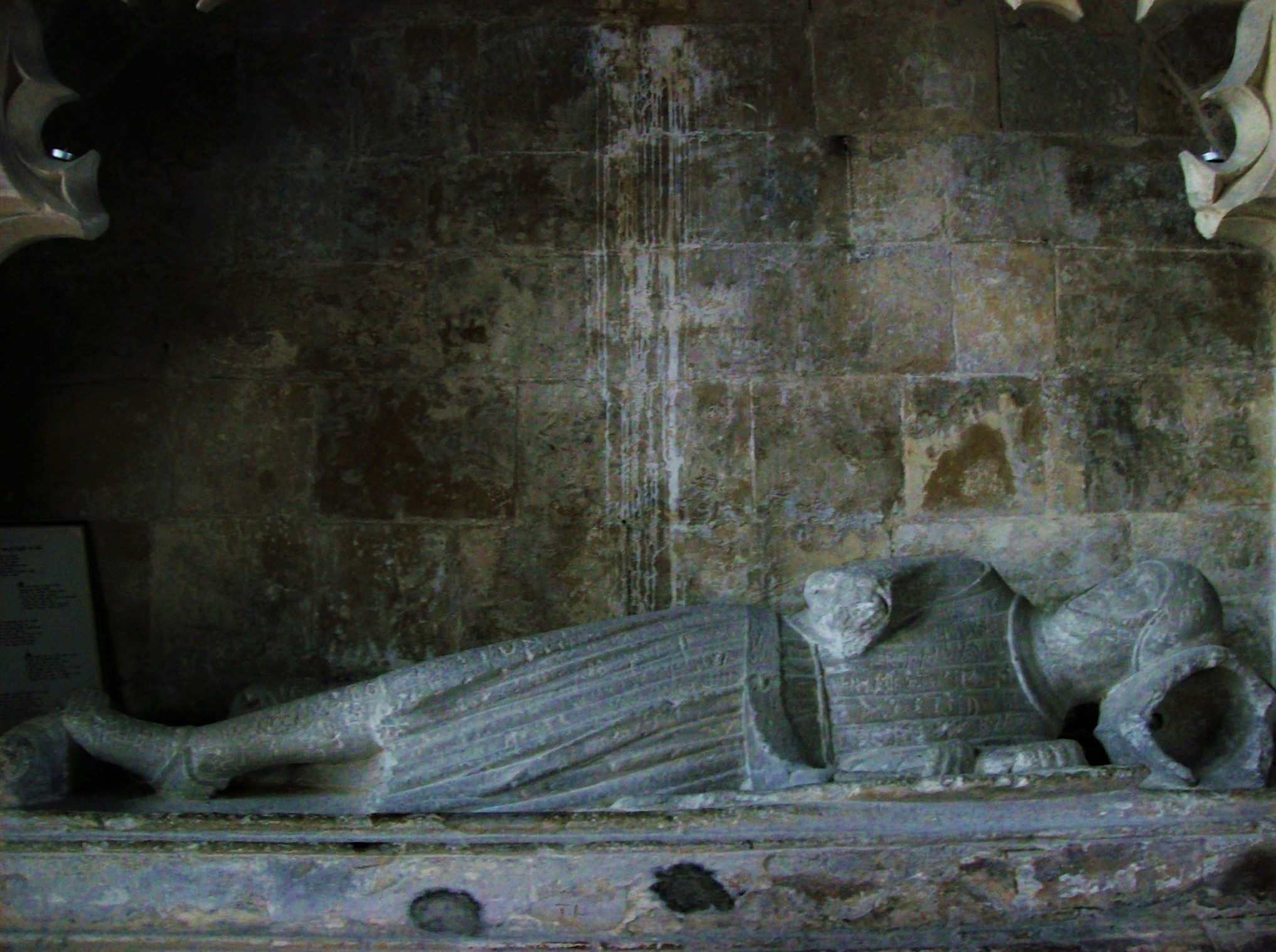 Tomb of Robert de Shurland Minster in Sheppey